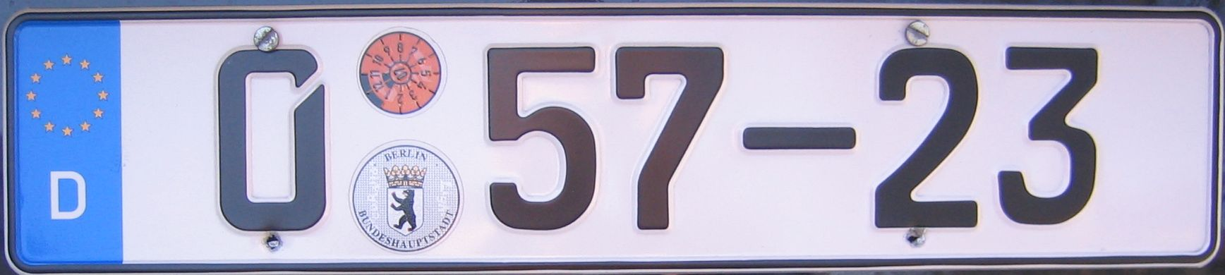 German diplomatic registration plate for Indonesian embassy in Berlin.